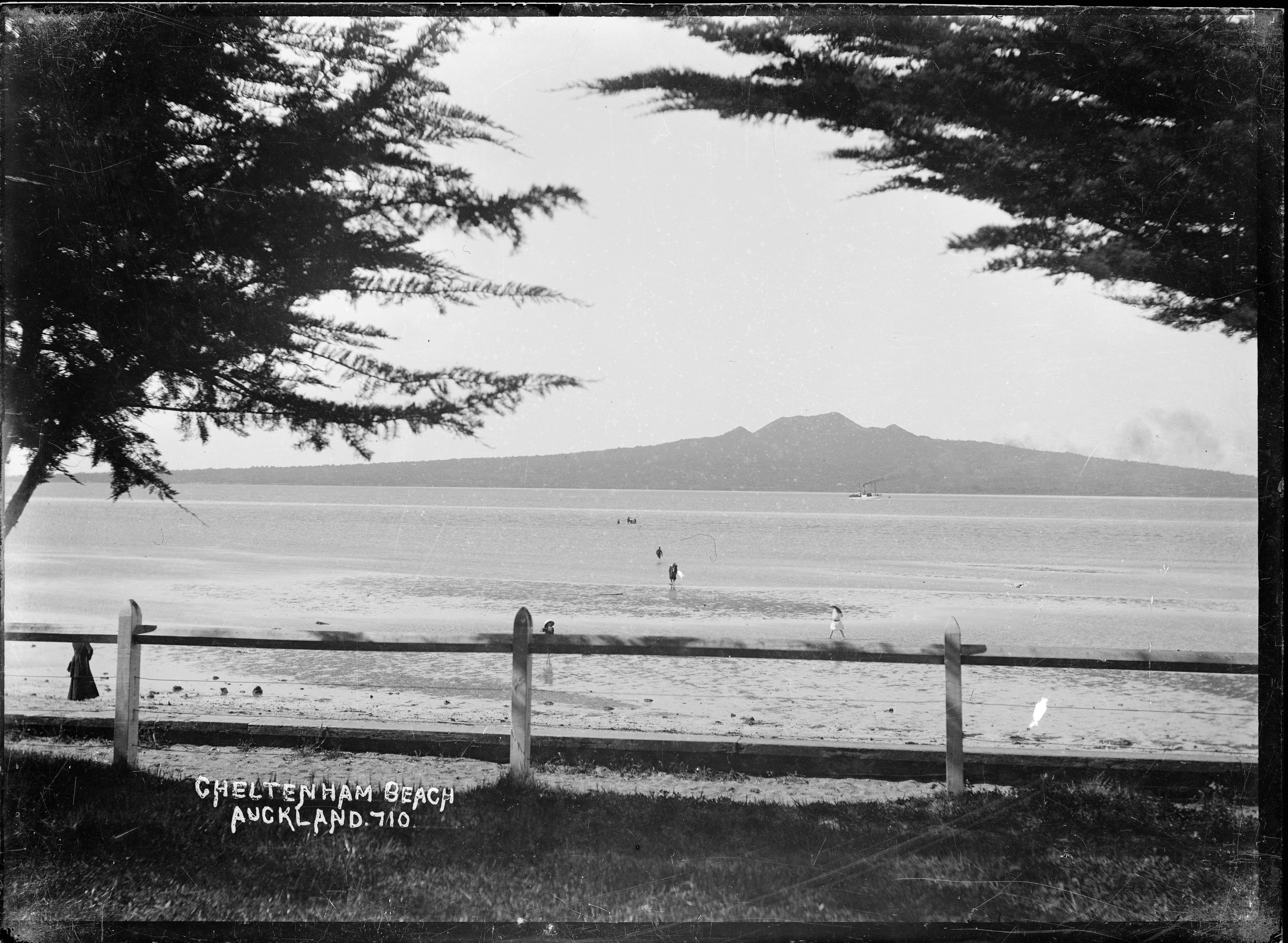 View of Rangitoto Island framed between two trees, taken from behind a fence and overlooking Cheltenham Beach. People can be seen on the beach and at the water's edge. Photograph taken by William Price ca 1908. Inscriptions: Inscribed - Photographer's title on negative -bottom left: Cheltenham Beach. Auckland. 710.. Quantity: 1 b&w original negative(s). Physical Description: Dry plate glass negative 4.5 x 6.5 inches View of Rangitoto Island from Cheltenham Beach, Auckland. Price, William Archer, 1866-1948 :Collection of post card negatives. Ref: 1/2-000432-G. Alexander Turnbull Library, Wellington, New Zealand.